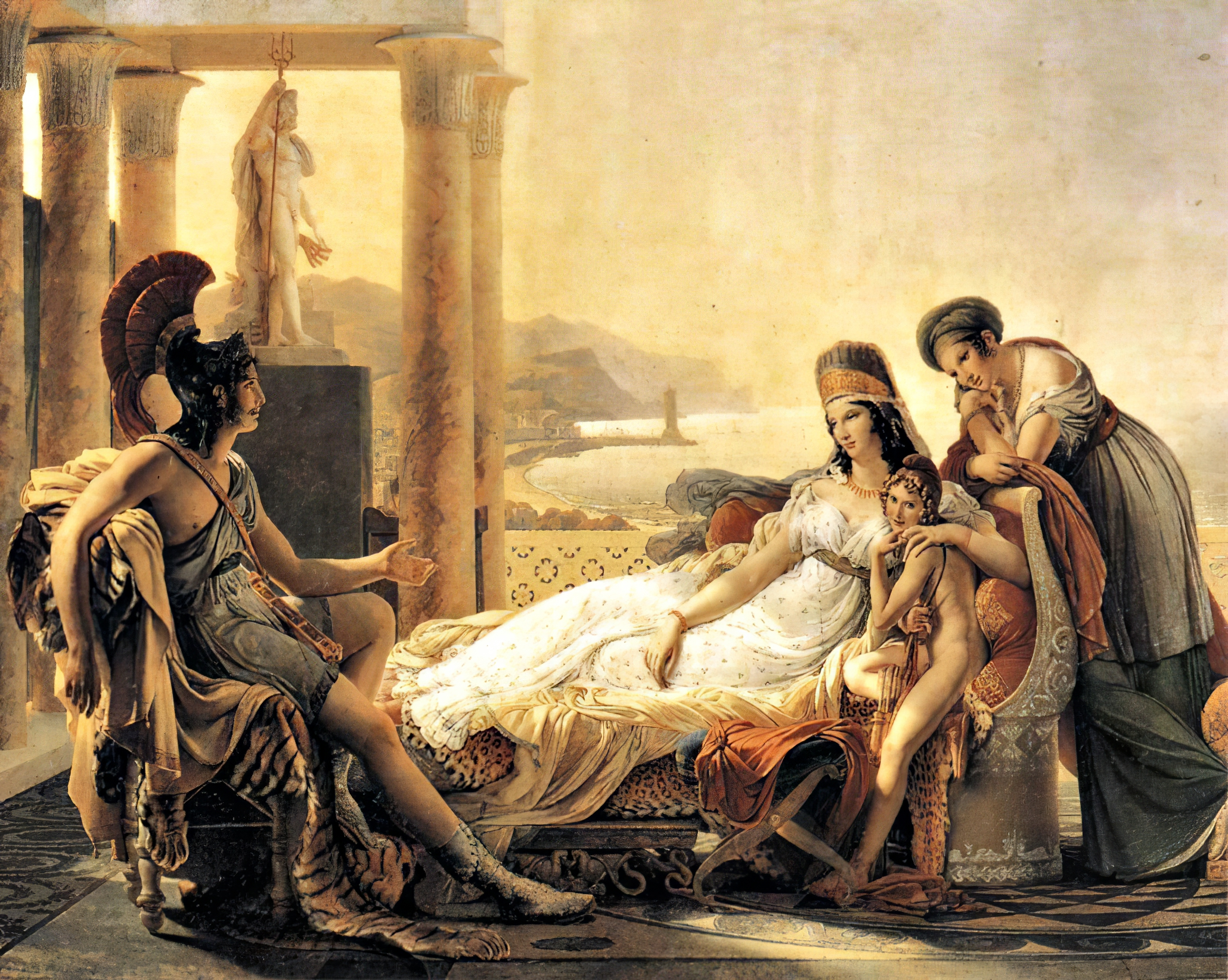 Aeneas tells Dido the misfortunes of the Trojan city. Oil on canvas, 1815.